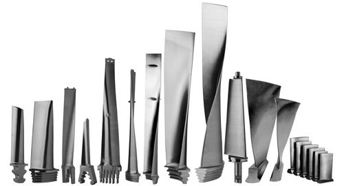 Turbine blades for steam turbine and gas turbine compressor